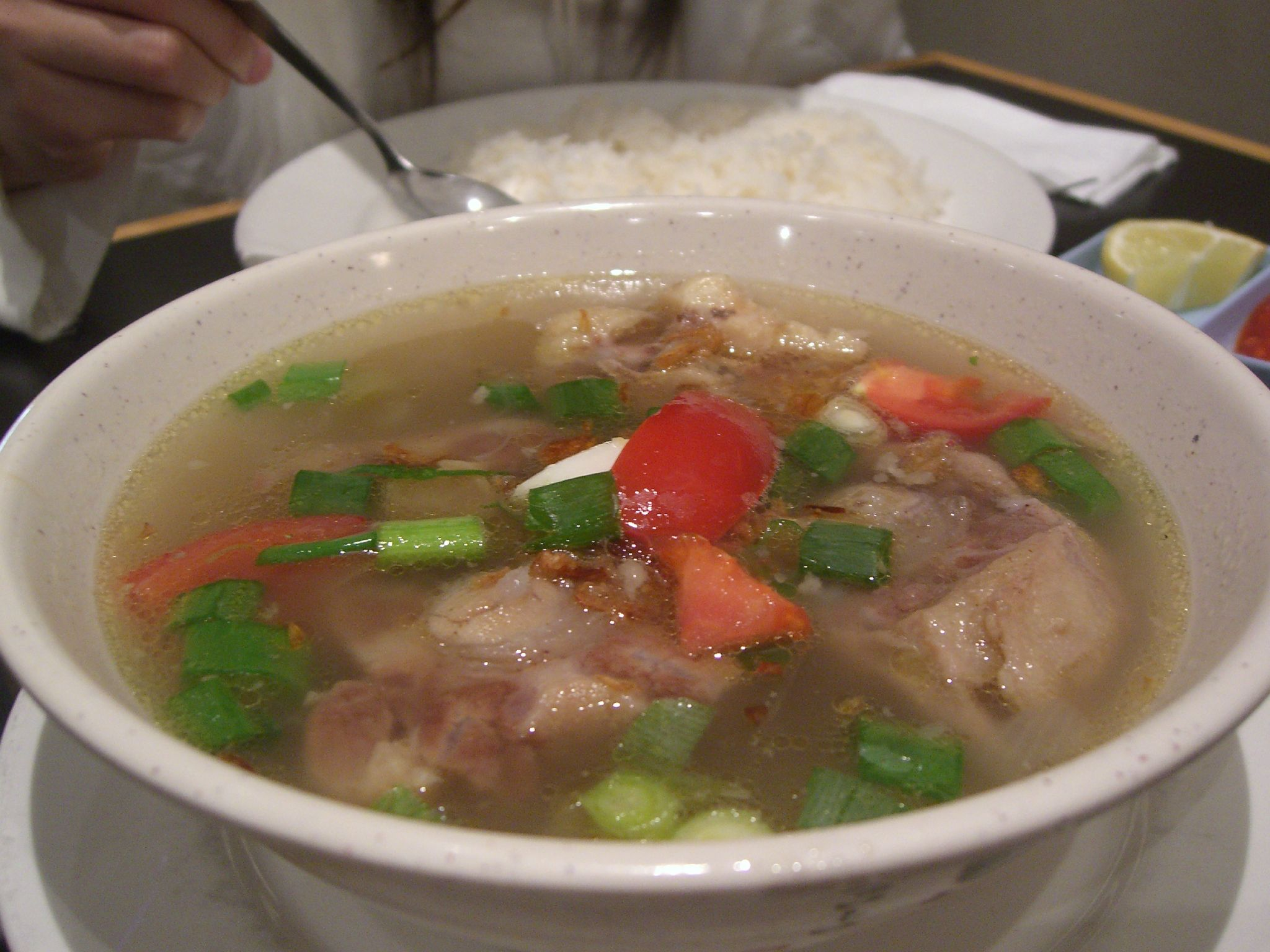 Sup Buntut - Nelayan Indonesian AUD8 with rice. Full of ox-y flavour and Indonesian spices. Great with a squeeze of lemon. Nelayan Indonesian Restaurant 265 Swanston St Melbourne 3000 (03) 9663 5886